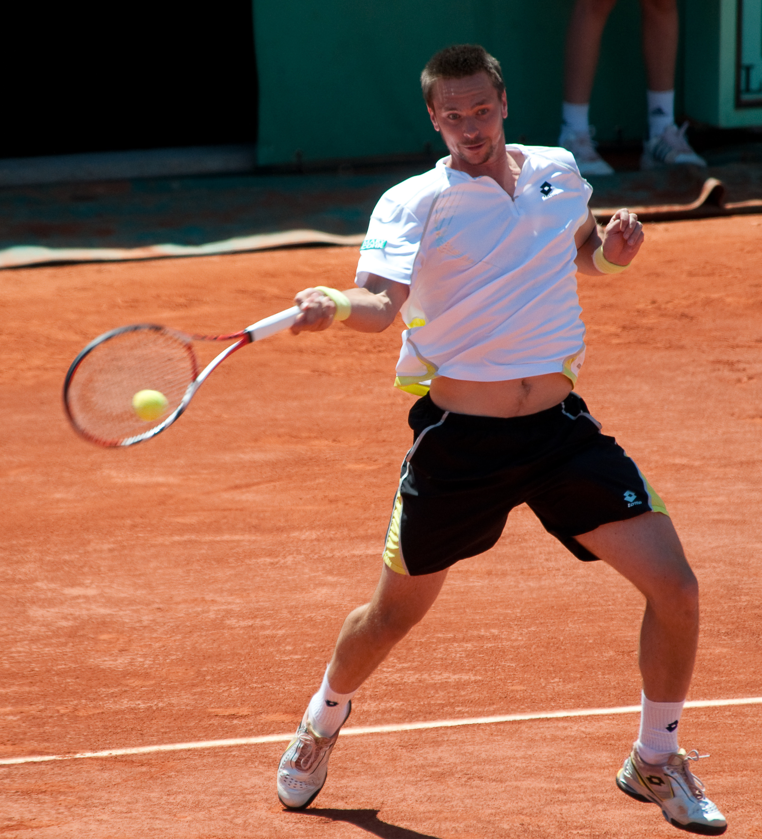 Robin Söderling at 2009 Roland Garros, Paris, France